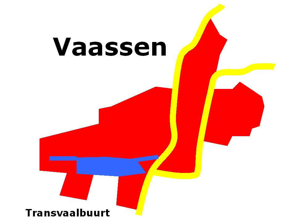 Location map of Transvaalbuurt in Vaassen.